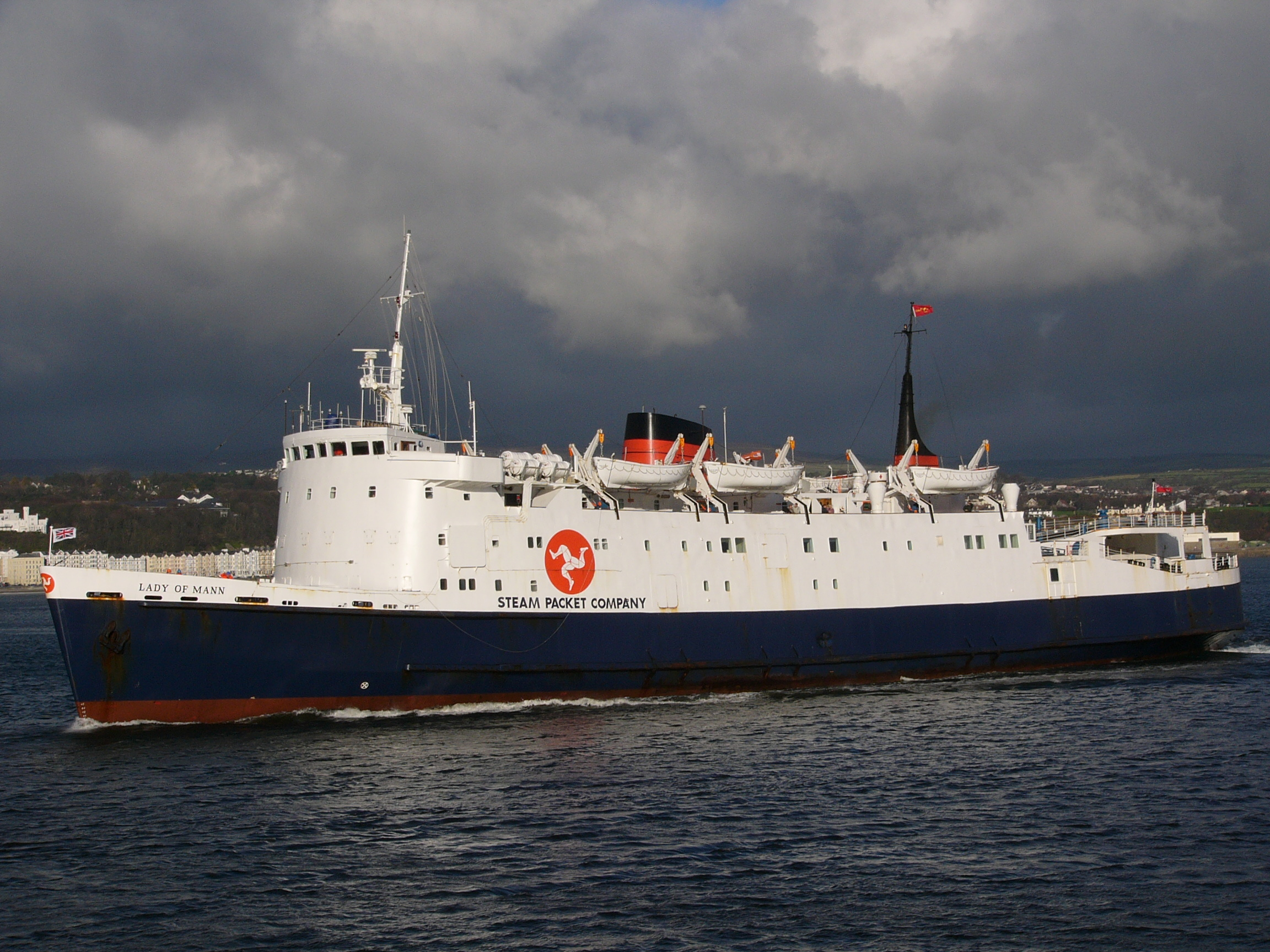 Lady of Mann arriving at Douglas.